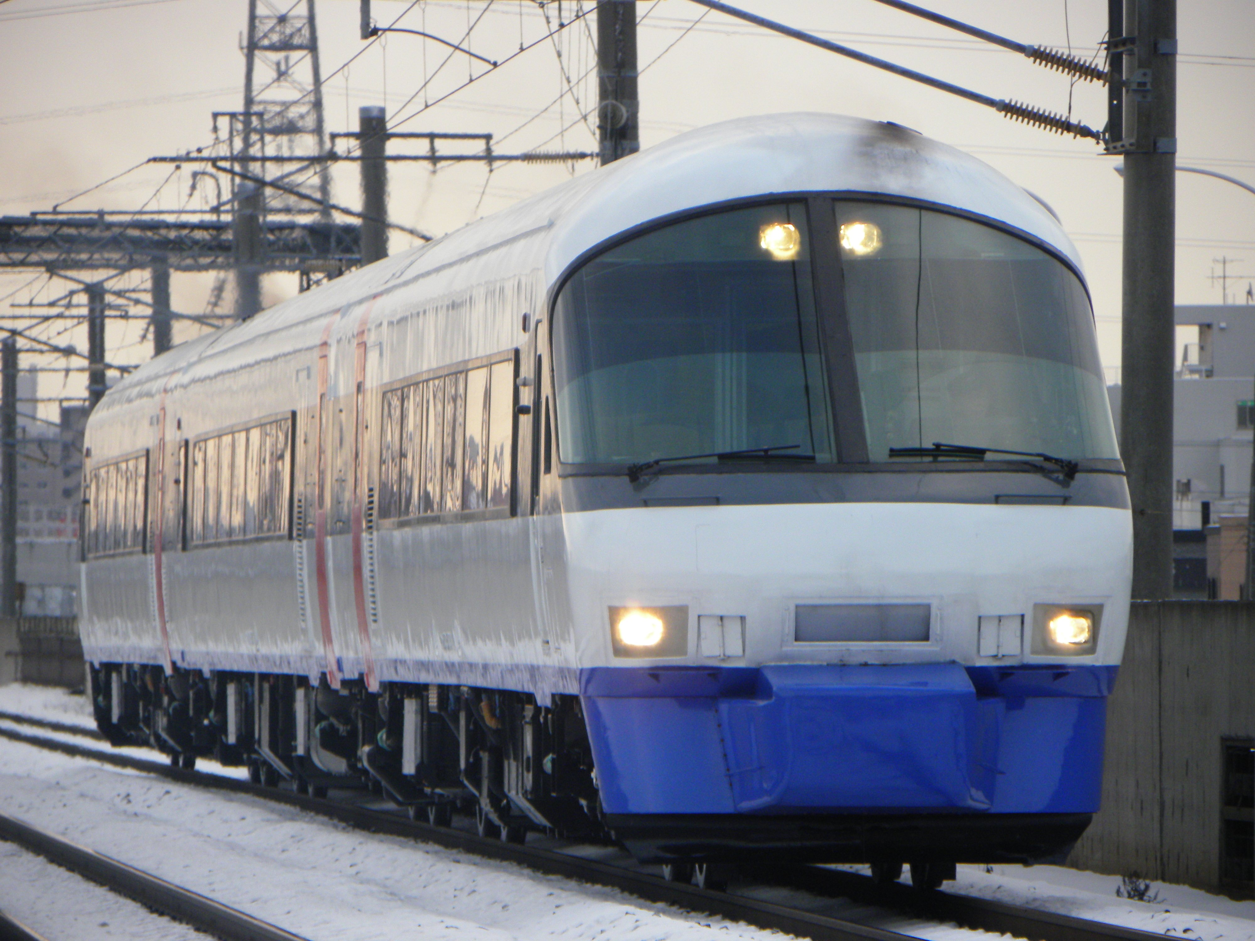 JR Hokkaido Kiha 183-5000 series DMU for Niseko Express train